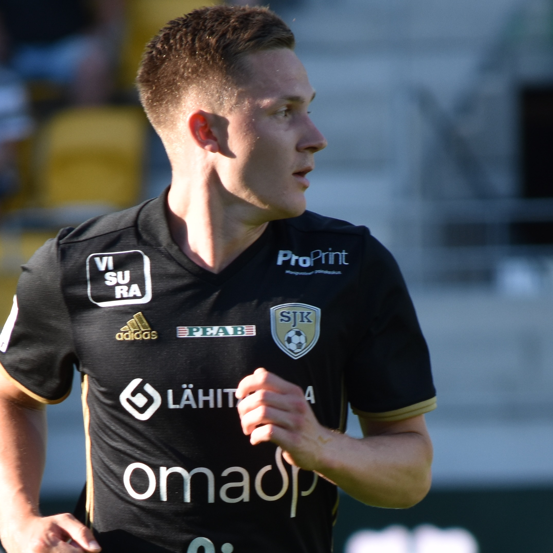 Association football player Joona Lautamaja (SJK)